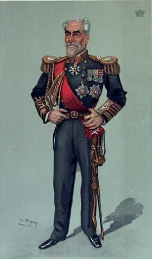 Caricature of Admiral of the Fleet Richard James Meade, 4th Earl of Clanwilliam, GCB, KCMG. Caption read "An Admiral of the Fleet".